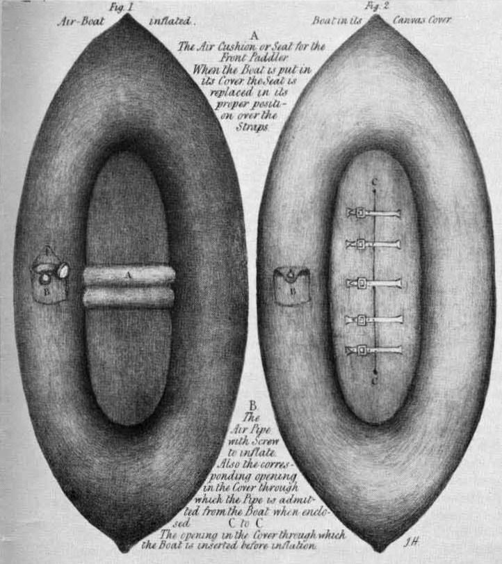 Two-man Halkett boat in its inflated state. Source: "Footnotes to the Franklin Search". The Beaver 34 (4): 47. Hudson's Bay Company.